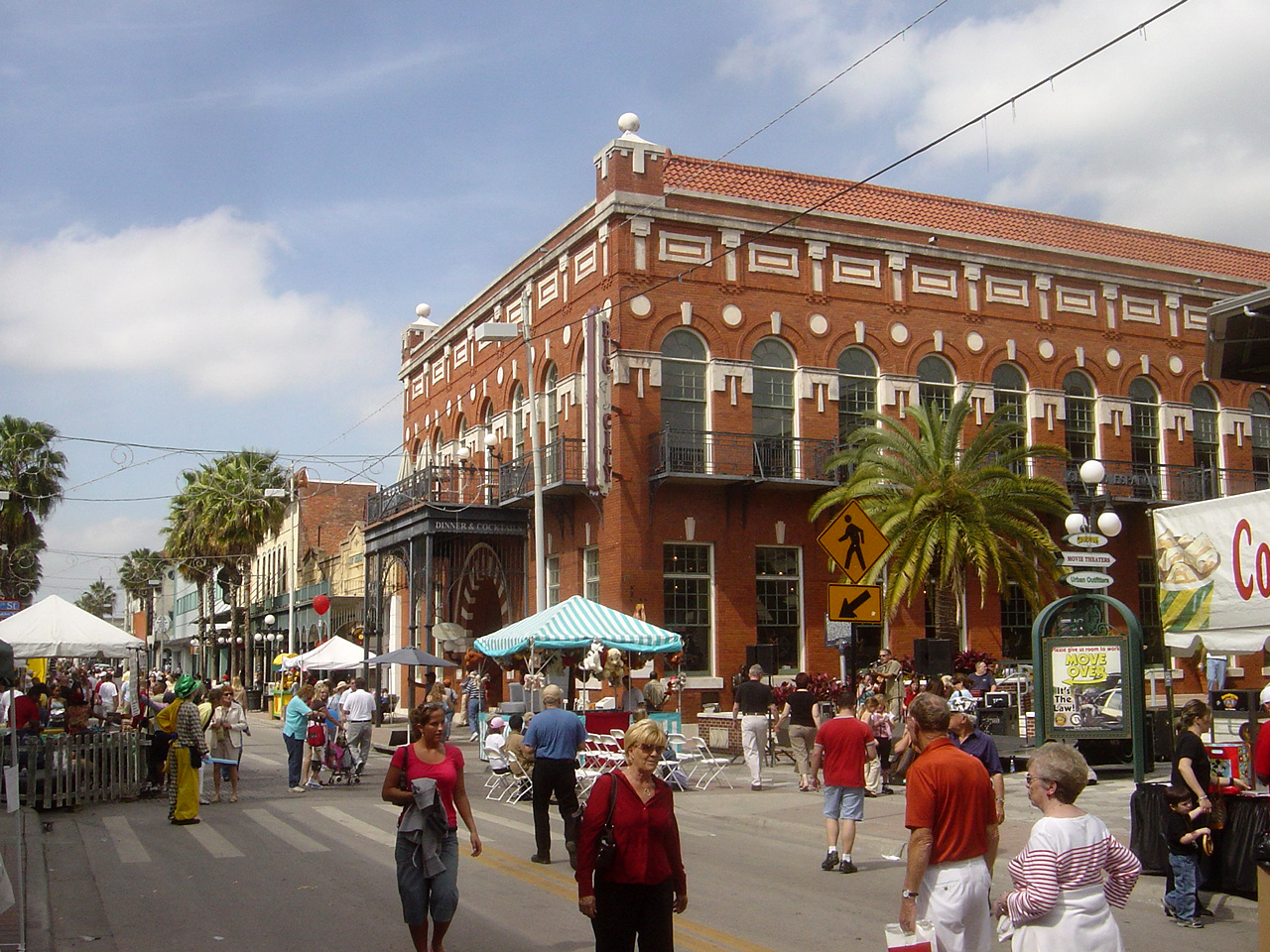 Street festival, Ybor City, Tampa, Florida.